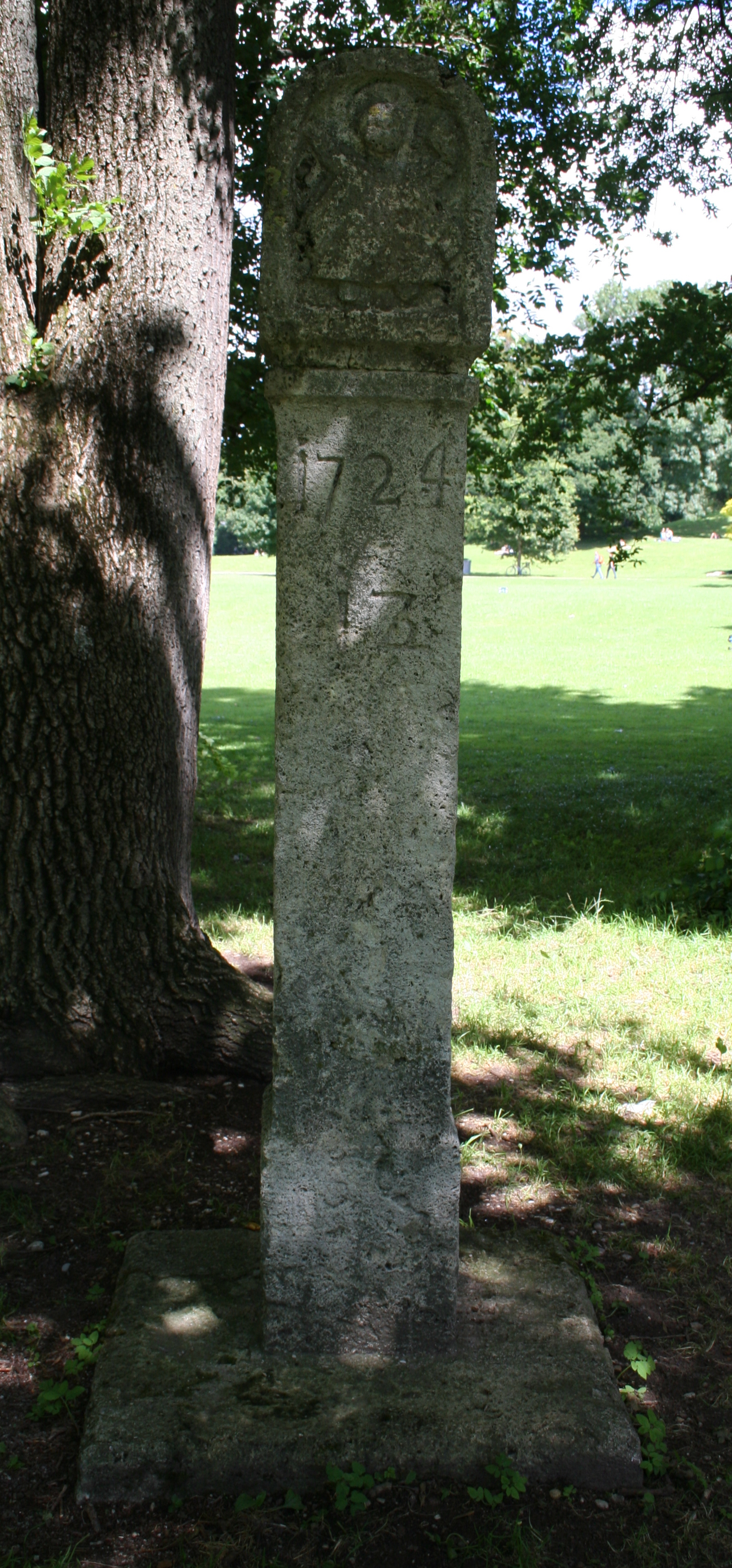 Burgfriedsäule in the English Garden (Englischer Garten) Munich. A boundary marker from 1724, in the grove below the Monopteros, the only survival from before the garden's creation